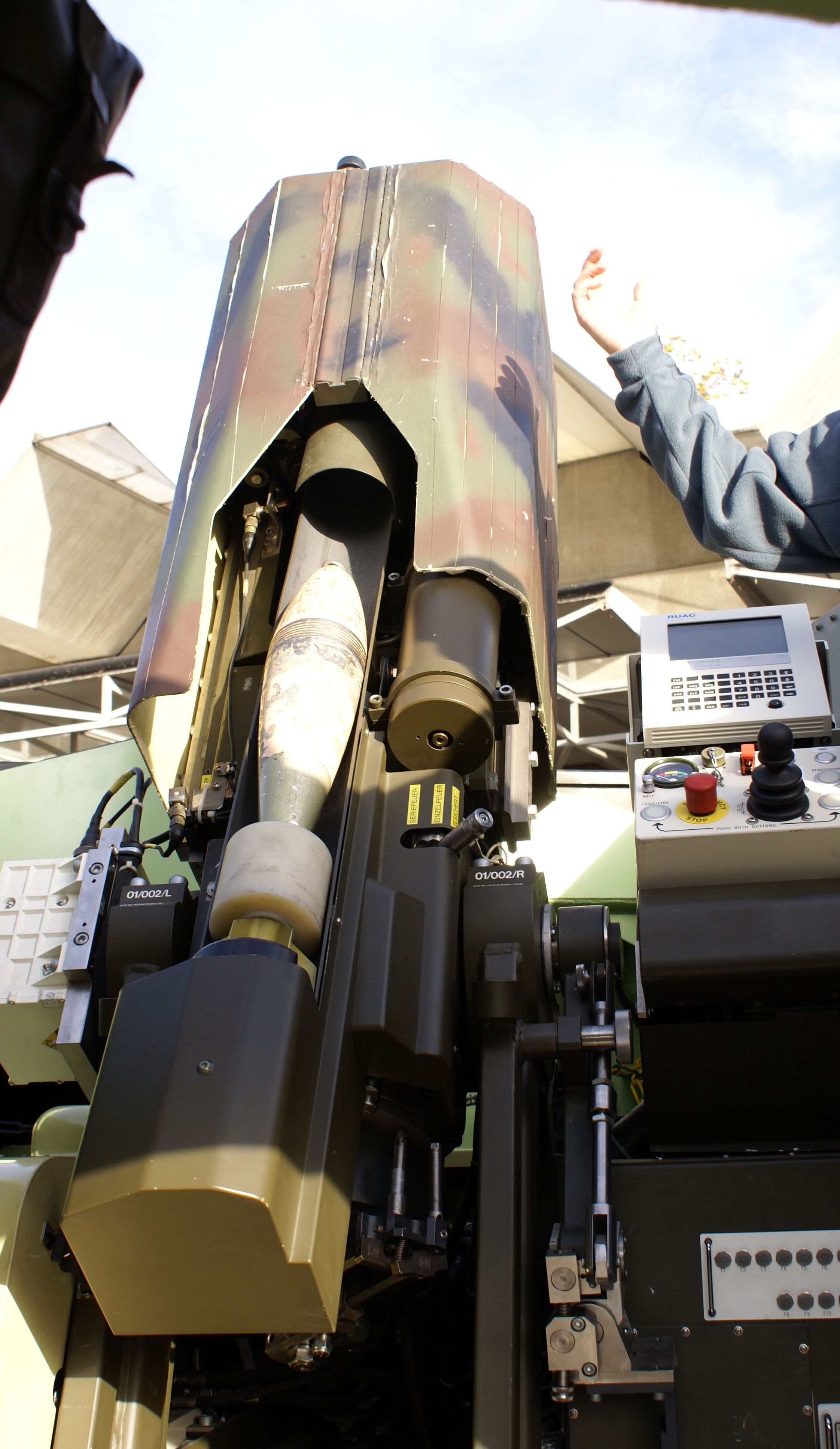 RUAG 120mm "BIGHORN" smoothbore mortar, prototype installed in a Mowag Piranha ATC.